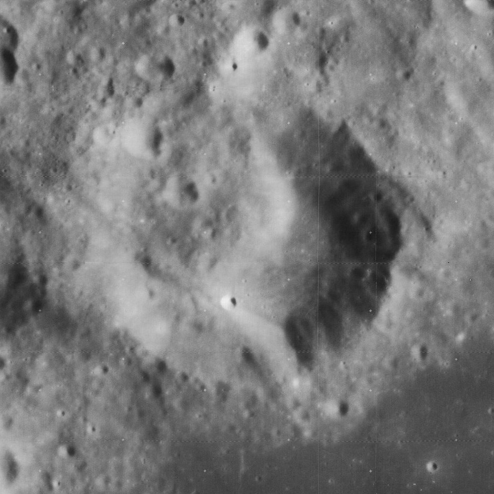 Tachinni crater, on the moon.